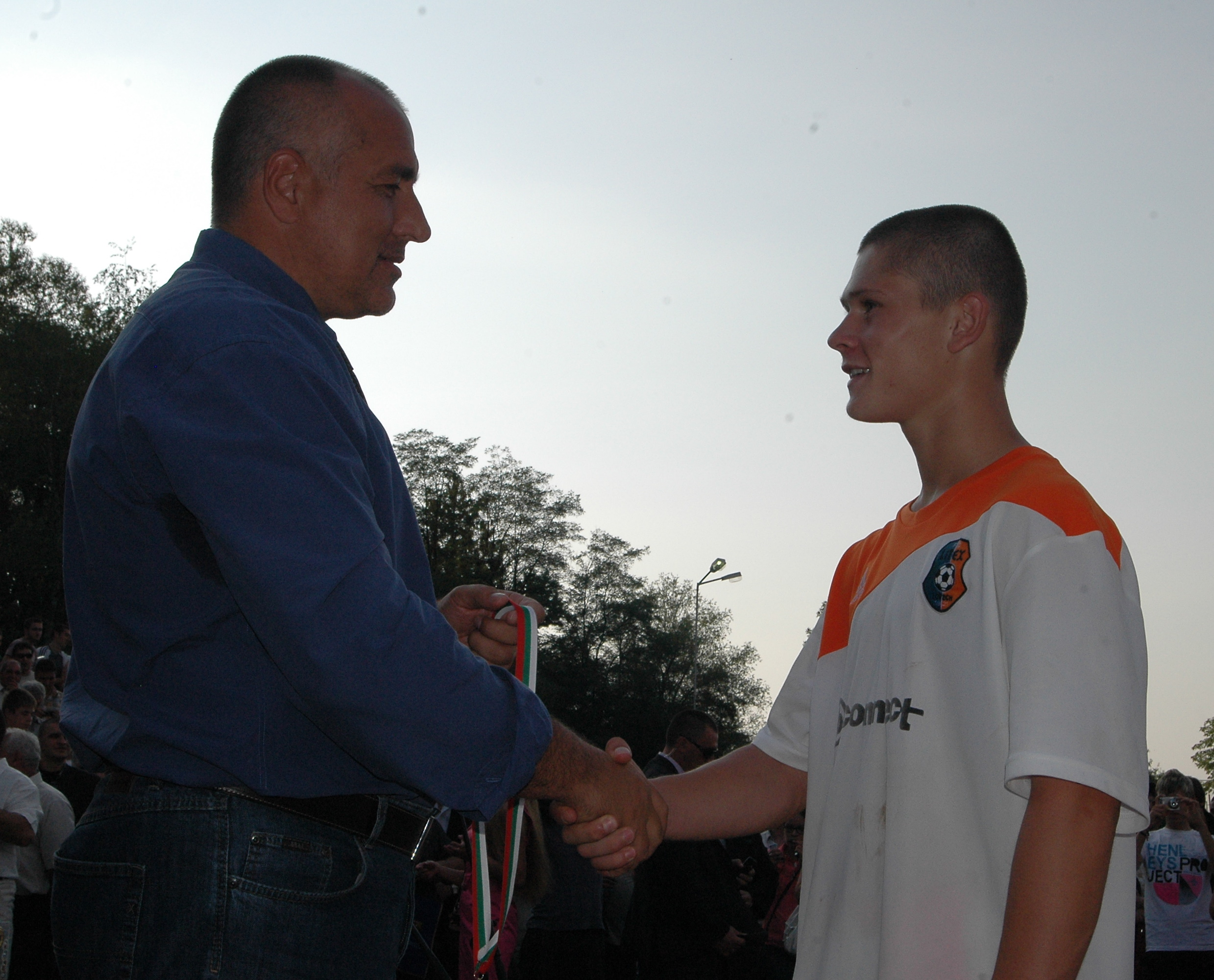 Konstantin Genkov